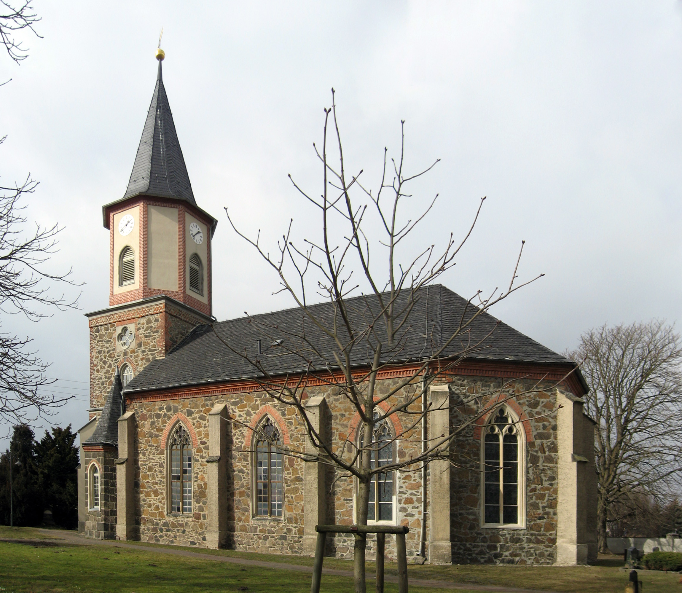 Church Leipzig-Kleinpoesna, Dorfstrasse